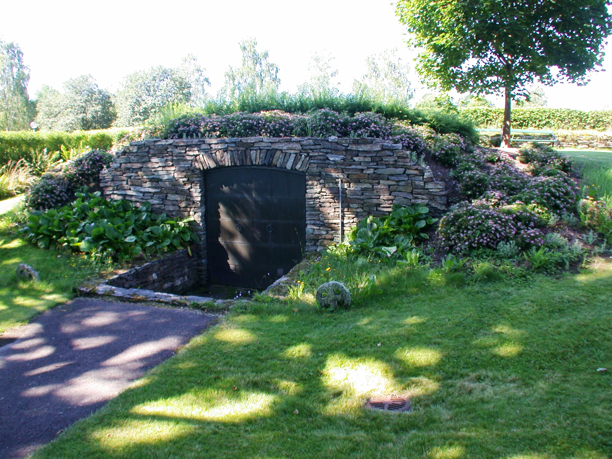 View from the church in Trankil, Sweden